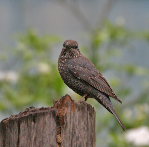 Blue Rock Thrush Monticola solitarius at Jayanti in Buxa Tiger Reserve in Jalpaiguri district of West Bengal, India.